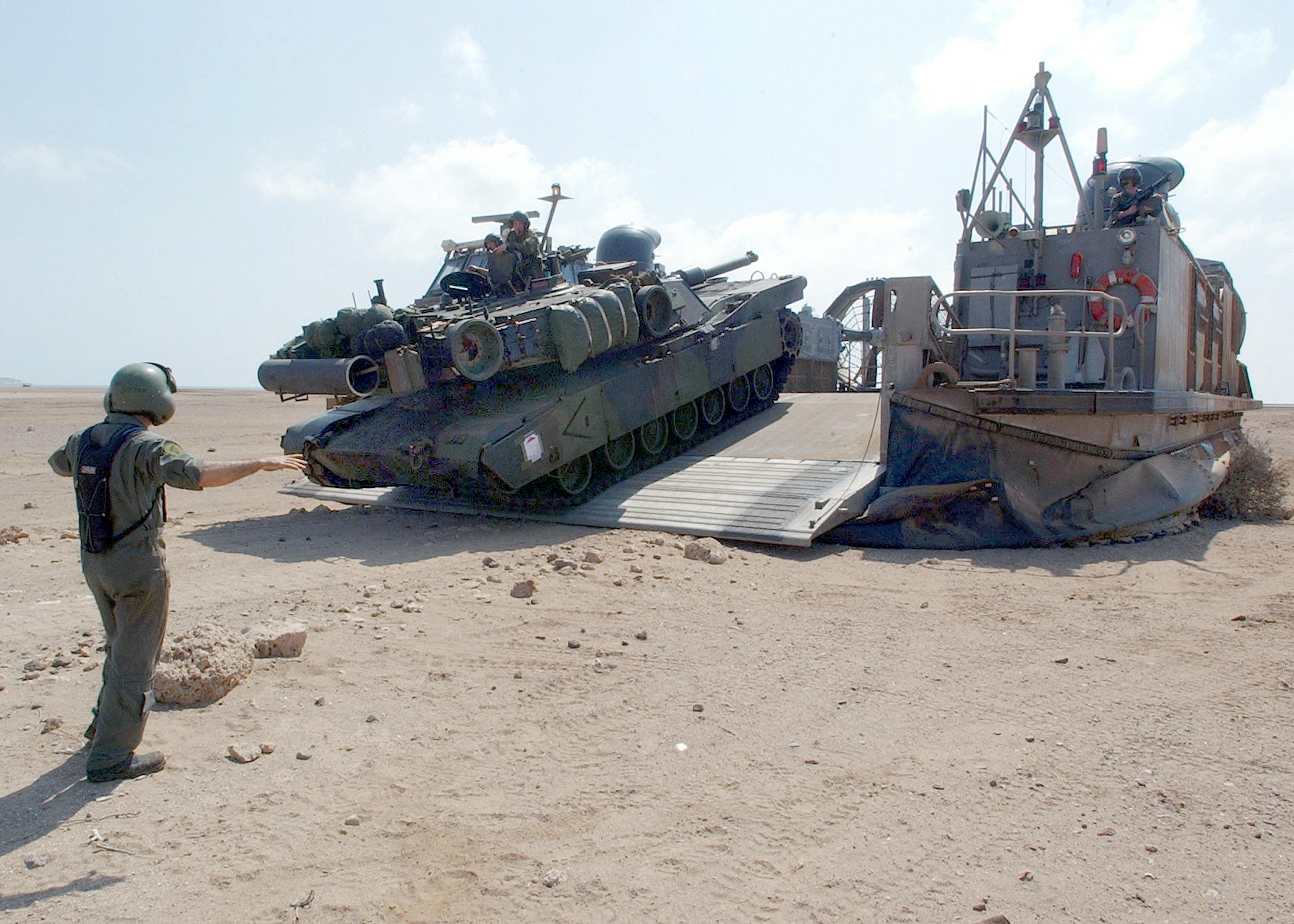 Off the coast of Djibouti (Nov. 9, 2002) -- An Land Craft Air Cushion (LCAC) assigned to Assault Craft Unit Four (ACU 4) offloads an M1-A1 Abrams tank during the first phase of exercise “Image Nautilus." Sailors assigned to ACU-4 are on a regularly scheduled deployment conducting missions in support of Operation Enduring Freedom. U.S. Navy photo by Photographer’s Mate Michael Sandberg. (RELEASED)